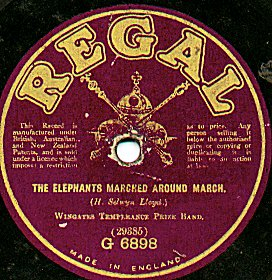 A record of the british label Regal Records, founded in 1914 by the american Columbia Gramophone Company